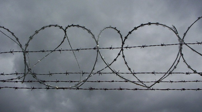 Barbed wire and razor wire